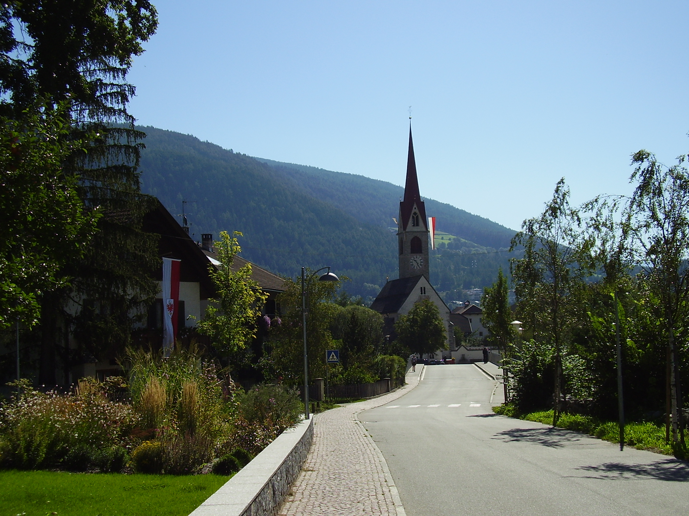 The church and the bridge of St. Georgen (S. Giorgio), Bruneck - Italy